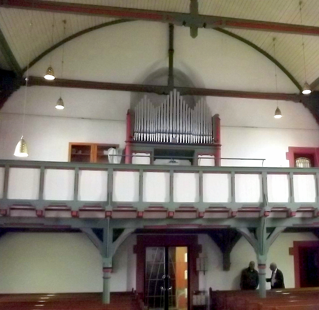 Interior of the protestant church in Wahlschied, Saarland, Germany